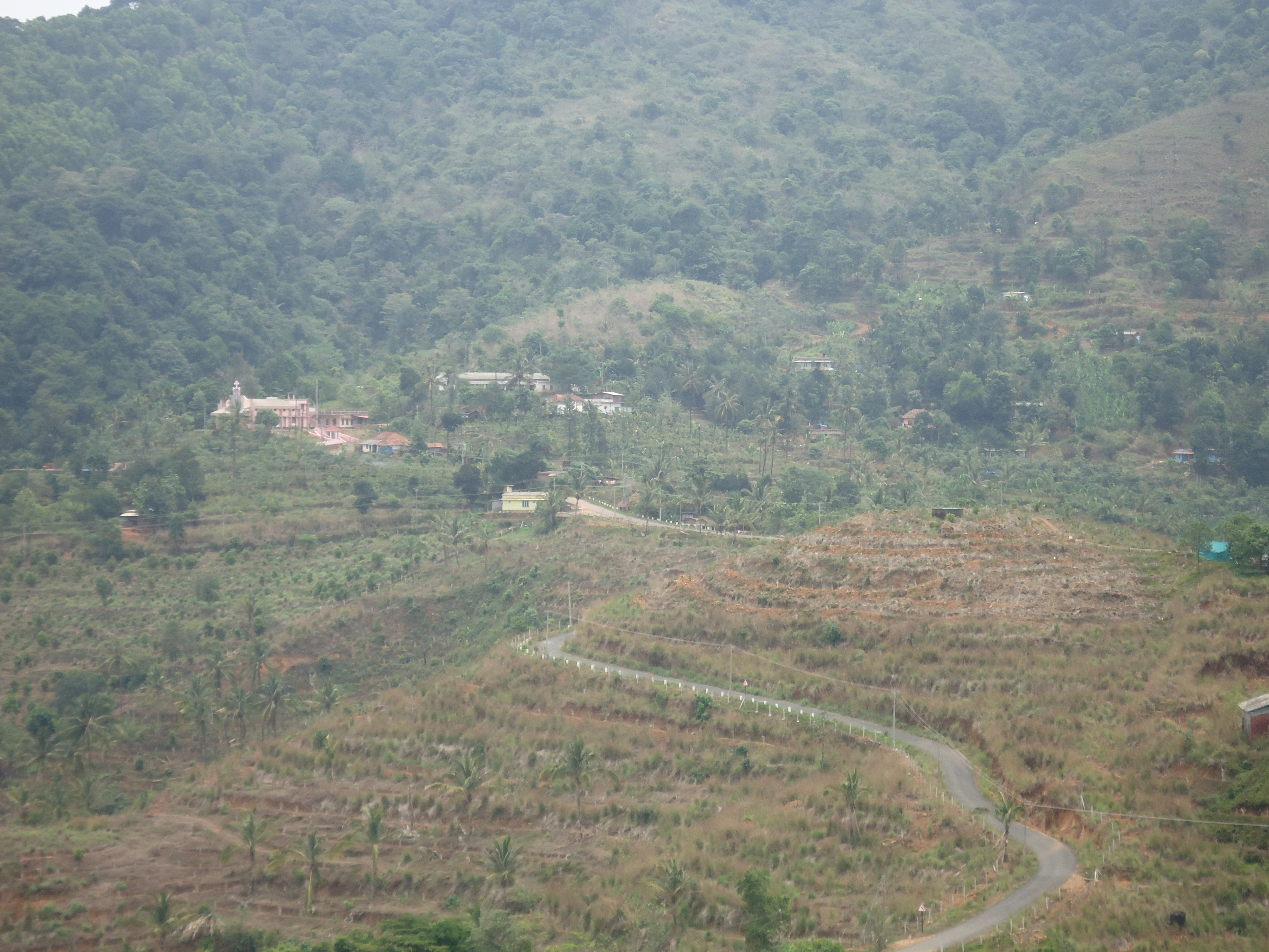 View from Kurisumala